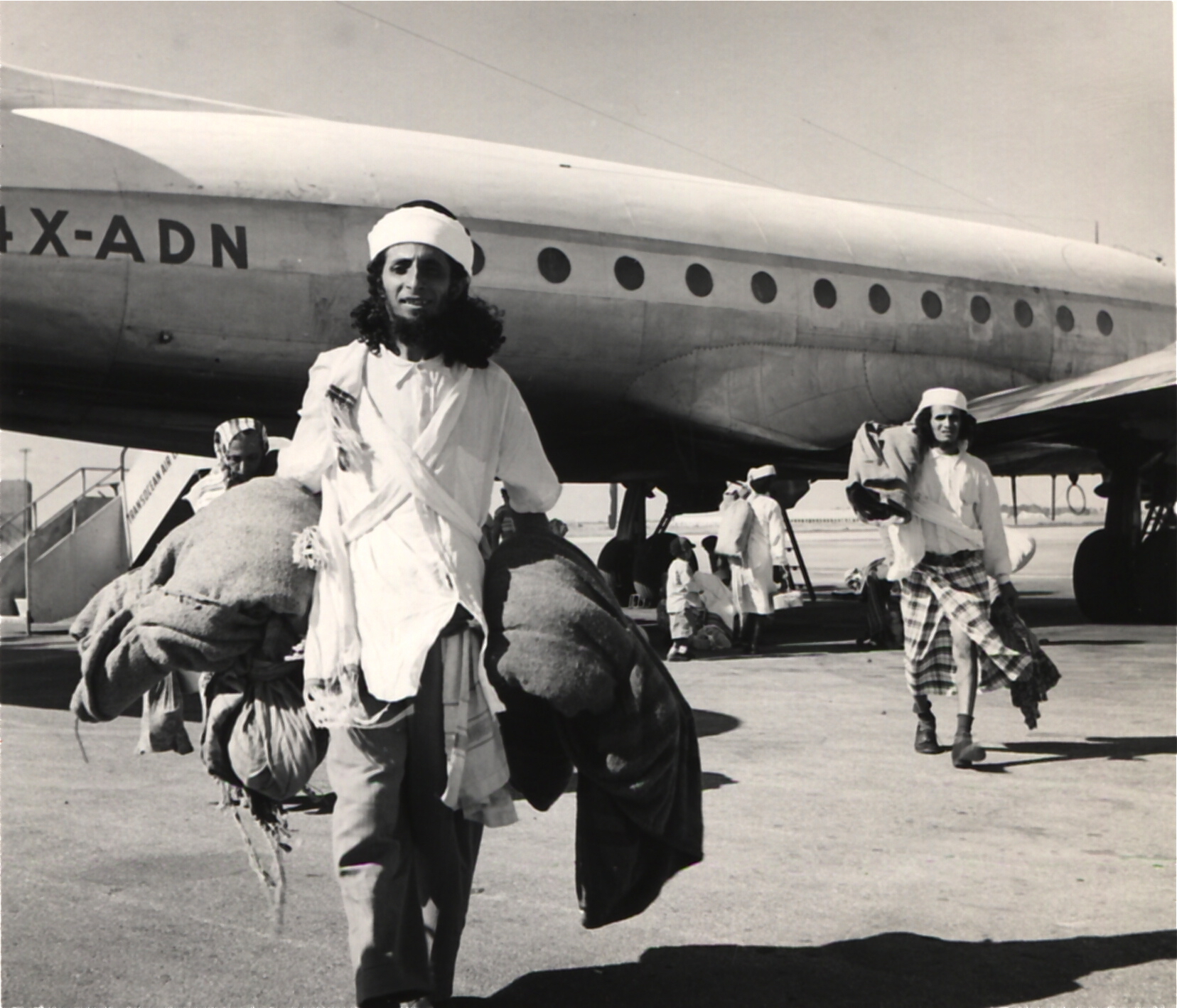 4X-ADN, DC-4 of Near East Air Transport on Airlift of Habbanim Jews from the South Arabian Peninsula, Operation Magic Carpet. With kind help of Marvin Goldman.